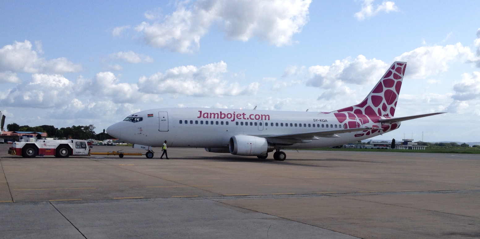 Jambojet B737-300